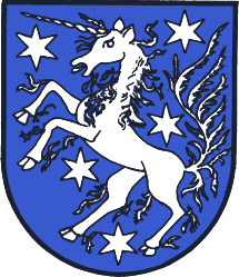 Coat of arms of Gössendorf in Styria in Austria.